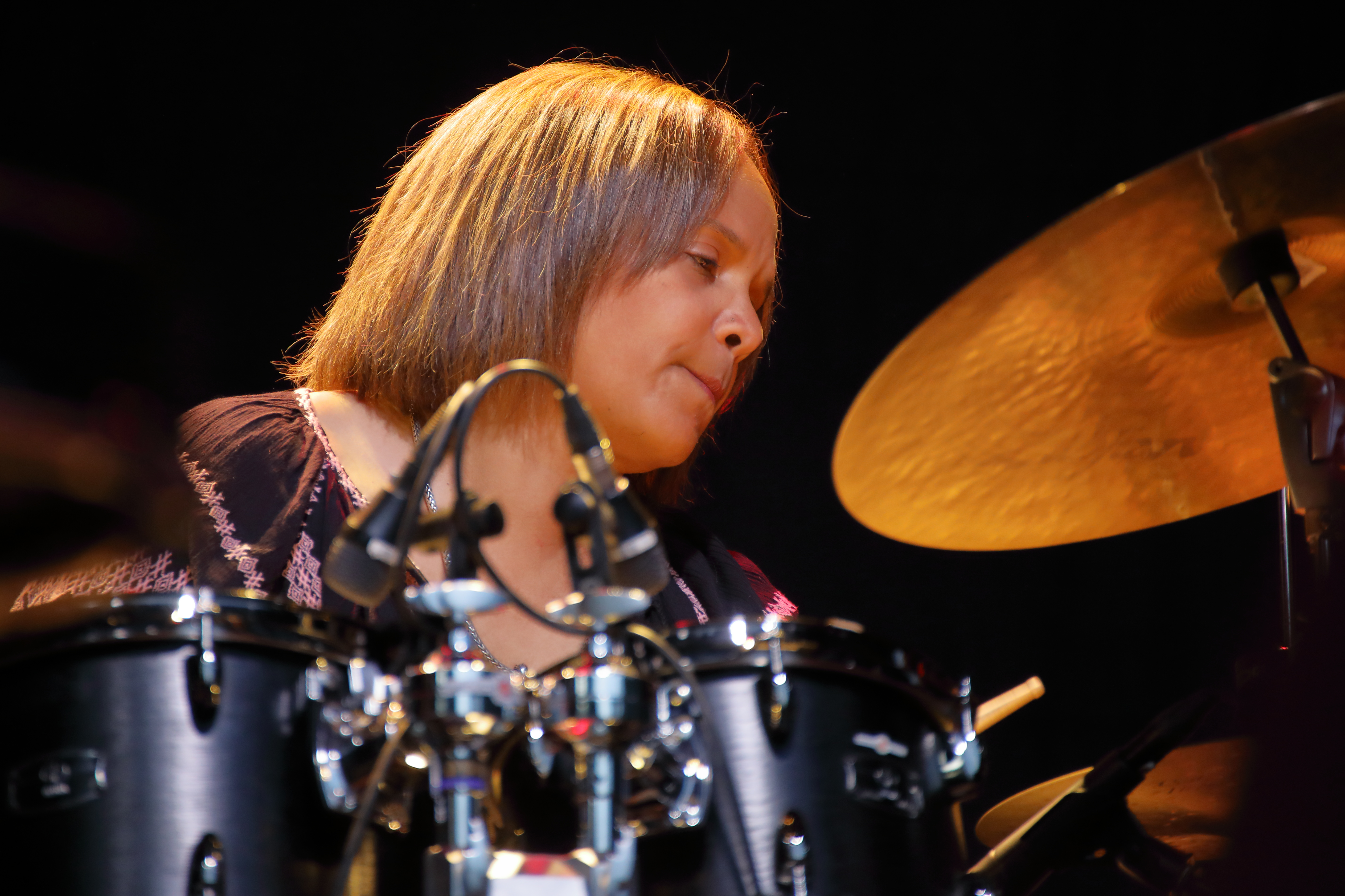 Terri Lyne Carrington played drums and was art director of the collective women´s project Sing The Truth with Angelique Kidjo, Cécile McLorin Salvant and Lizz Wright at Rudolstadt-Festival 2019.